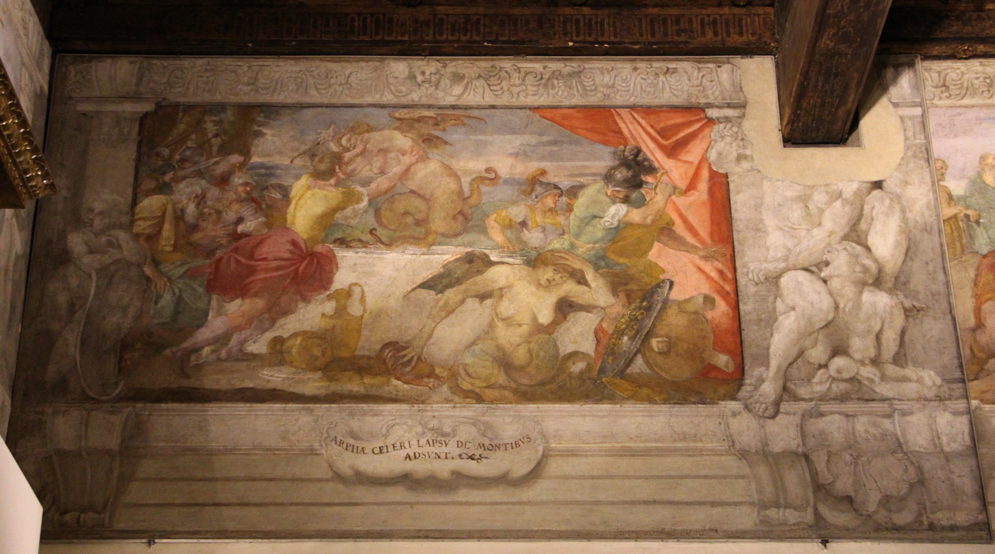 Frieze of Aeneas by the Carracci family